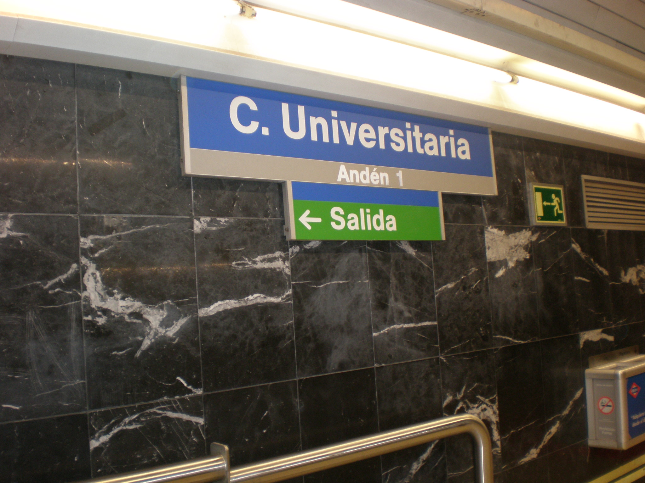 Sign of Ciudad Universitaria underground station.